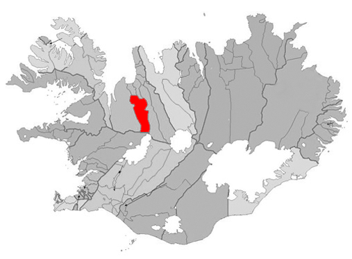 Based on Municipalities of Iceland.png.